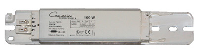 Typical 230V, 40W choke ballast used in tanning beds.